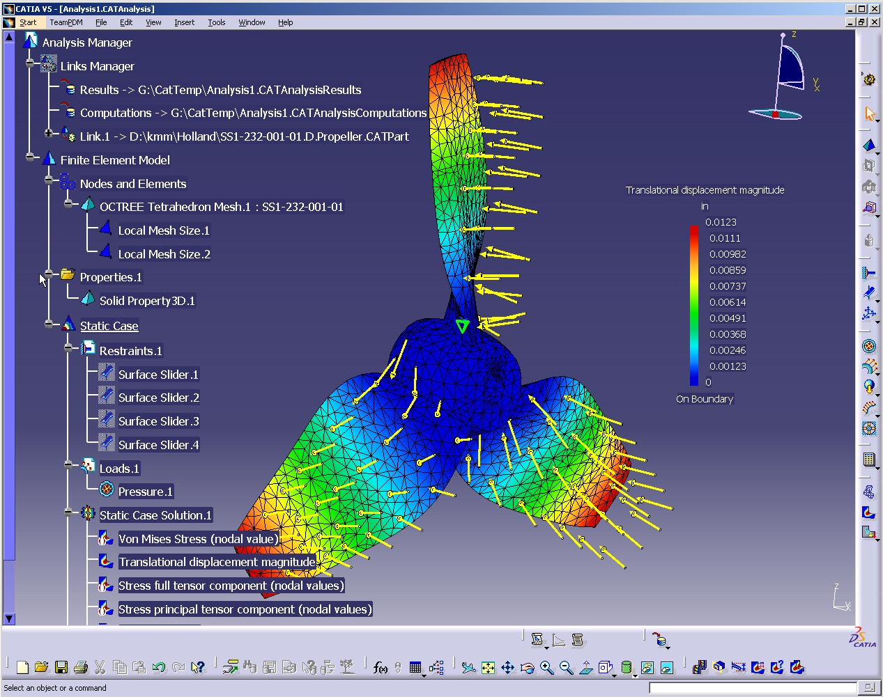 I made the image myself from a screenshot. The full gallery is on our web page at We are Authorized Business Partners with IBM with permission to use all images